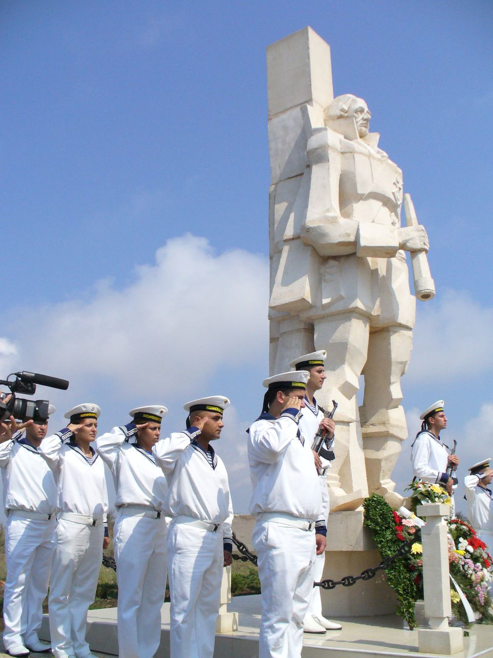 Monument of Russian admiral Ushakov at Cape Kaliakra, Dobrich region, Bulgariaл